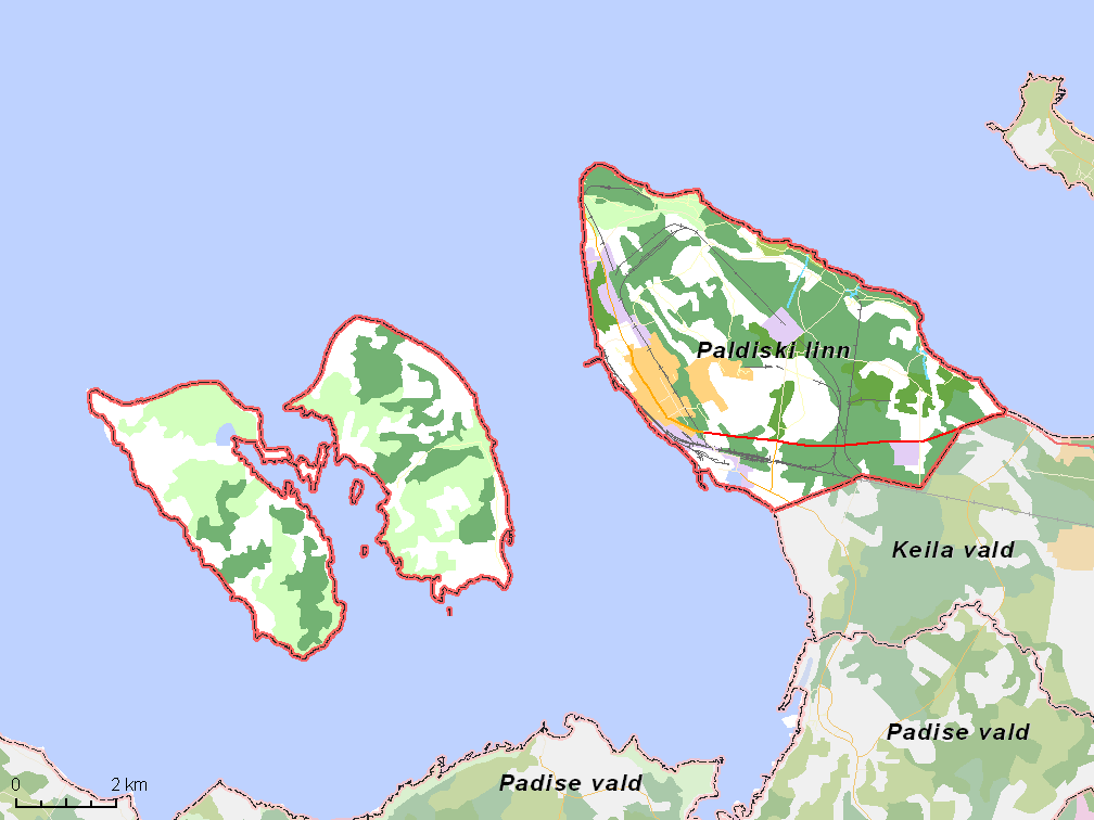 Map of municipality in Estonia